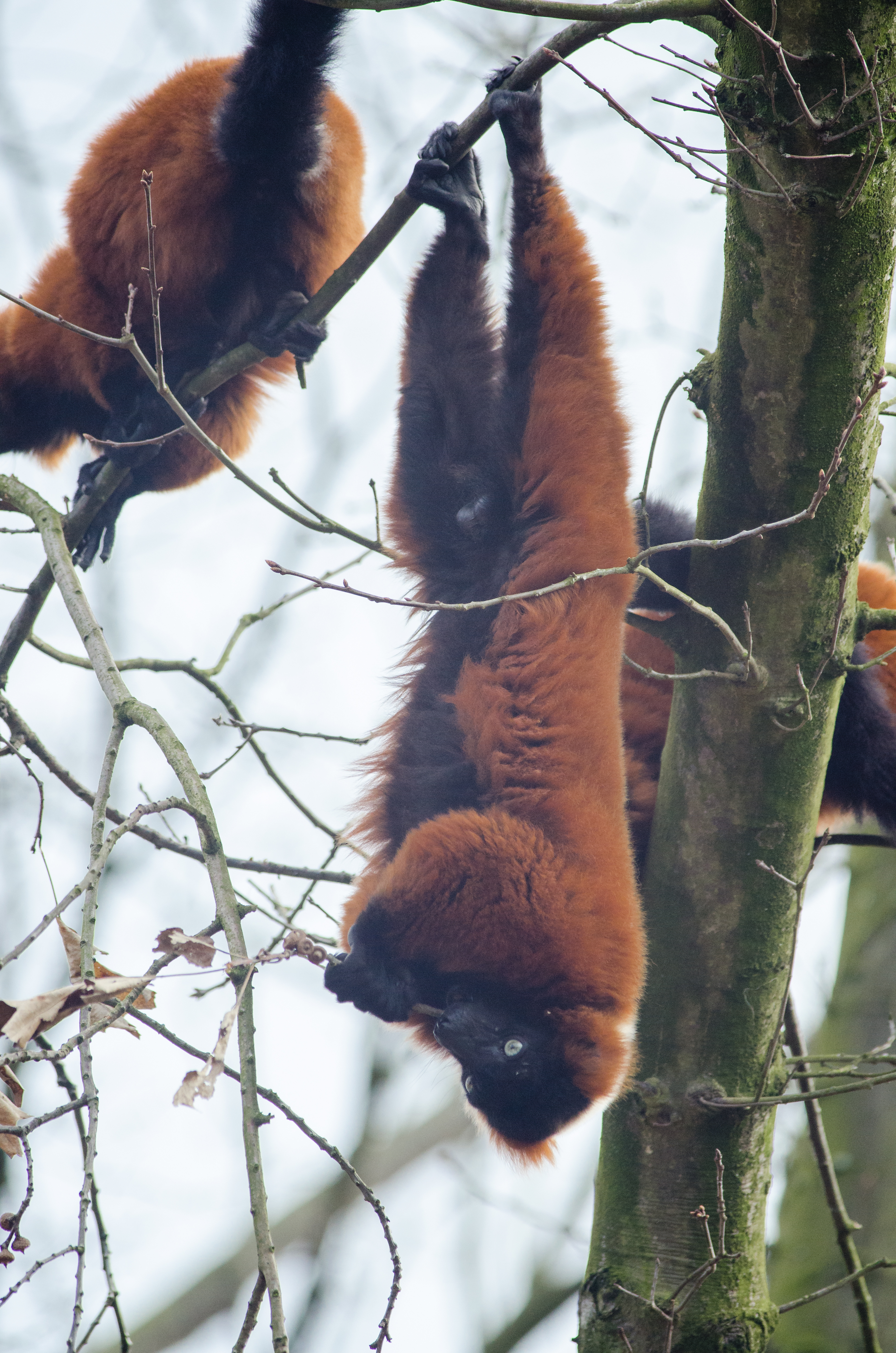 Red ruffed lemur, Varecia rubra